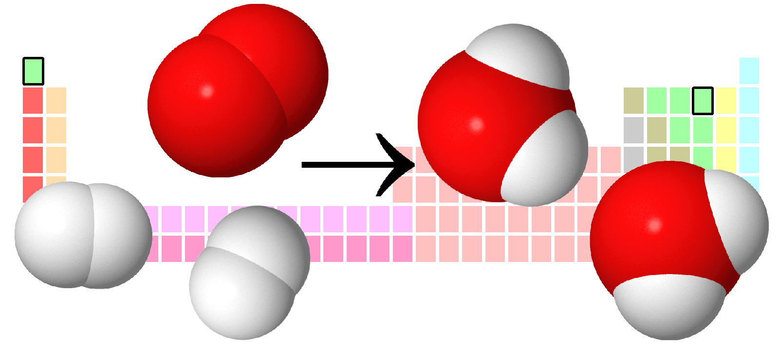 Oxygen atoms (shown as red spheres) and hydrogen atoms (shown as white spheres) either occur as elements (left) or react to form the compound water (right). The periodic table (background) provides a framework to predict structure and reactivity, e.g. why two atoms of hydrogen combine with one atom of oxygen. This image shows space-filling models of dihydrogen, dioxygen and water molecules, illustrating the formation of water from the elements. The background shows the periodic table of elements, with the elements hydrogen and oxygen boxed. The background is based on a screen shot of the article Platinum in the English wikipedia. The molecules were rendered with the free software jmol, using the First glance in Jmol user interface. The graphics software gimp was used to assemble the image.